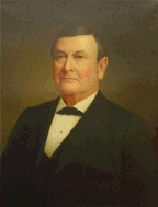 John P. Cochran of Delaware (1809-1898) Courtesy of Delaware Department of State, Division of Historical and Cultural Affairs. Collection of the Delaware State Museums. Per Jeff Hague, Registrar of Regulations, Legislative Council, State of Delaware, image is not copyright and is used with permission. Hall of Governors Portrait Gallery.